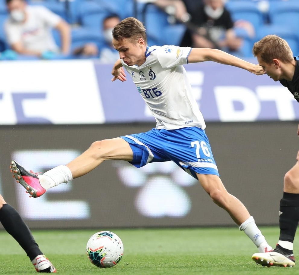 Vladislav Karapuzov with FC Dynamo Moscow in a game against PFC CSKA Moscow.